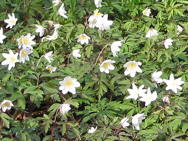 A patch of wood anemones The star-shaped flowers of the wood anemone (Anemone nemorosa)usually grow in deciduous woodland and are sometimes called Windflowers. This patch is growing in Dymock Woods.